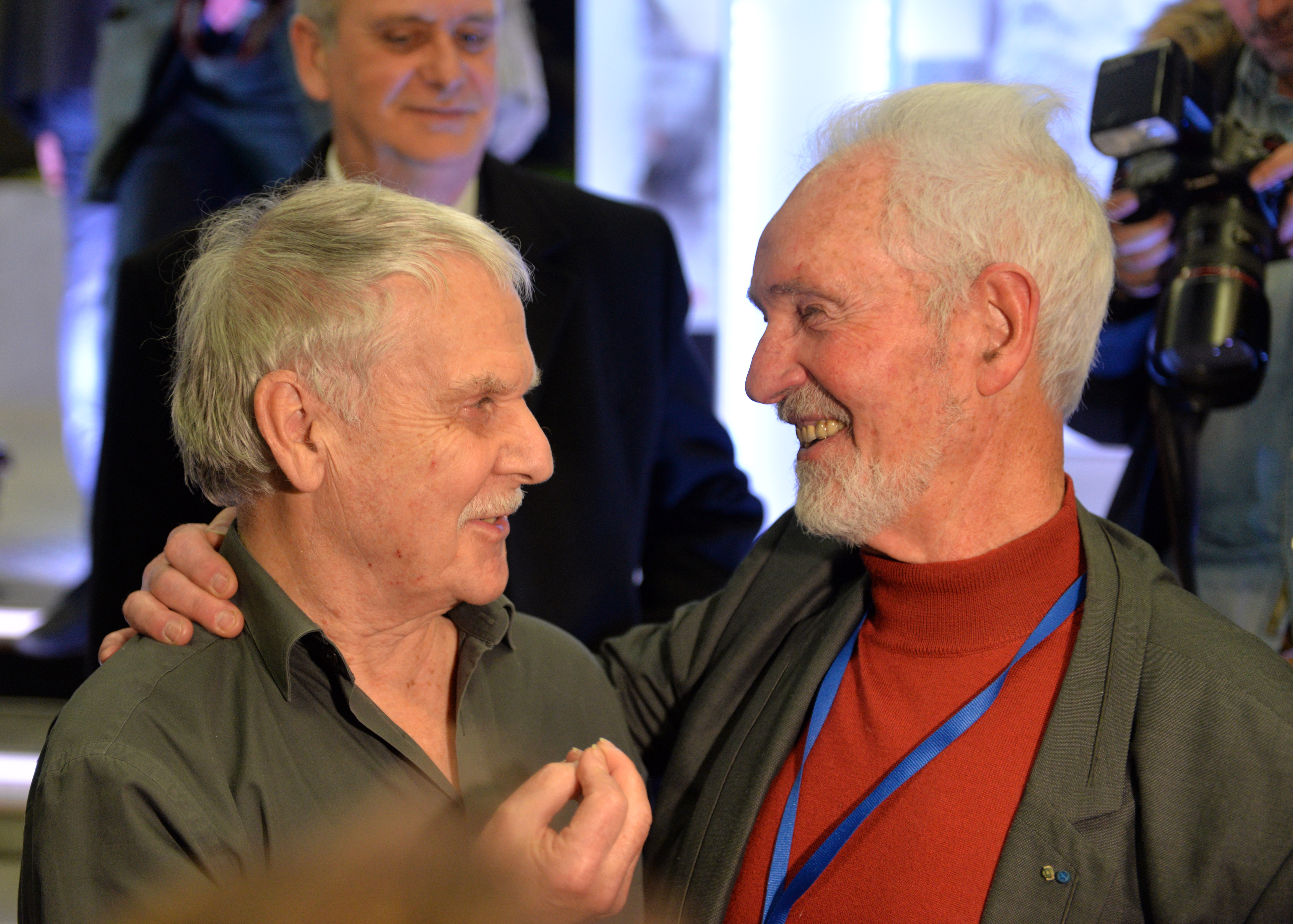 Comic artists Hermann Huppen and Francis Groux at Angoulême International Comics Festival opening ceremony.